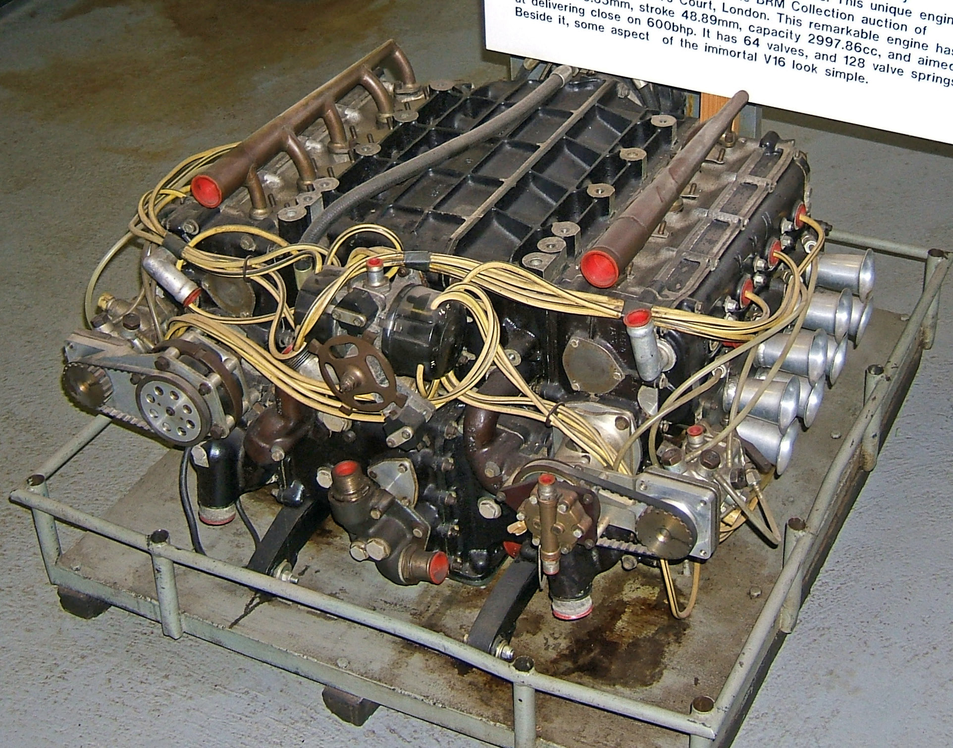 A British Racing Motors H16 Formula One engine. This is the final, 1968, 64-valve incarnation of the design. At the Donington Collection museum, Leicestershire, England, UK.